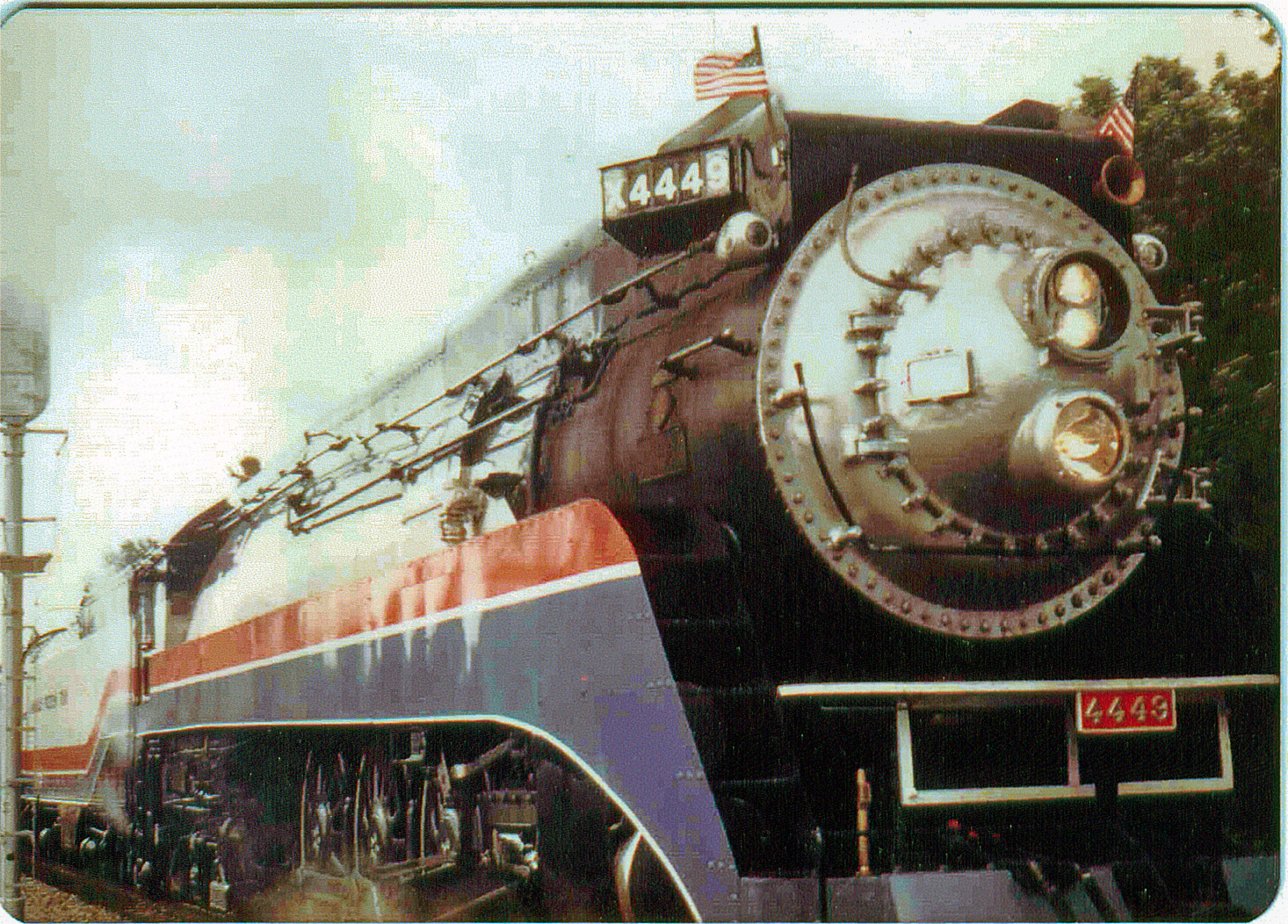 The American Freedom Train 4449 at stop in Georgia 1976, Ira Leamon Wilson engineer. See The Freedom Train & The American Freedom Train.